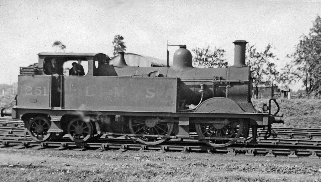 Ashchurch: an ancient tank engine on shunting work. View westwards, across the Birmingham - Bristol main line just south of the A438 bridge. No. 1251 was one of the Johnson ex-Midland 1P 0-4-4Ts still in its original form, a Gloucester engine sub-shedded at Tewkesbury and pressed into shunting work between running up and down the Malvern and Evesham branches.